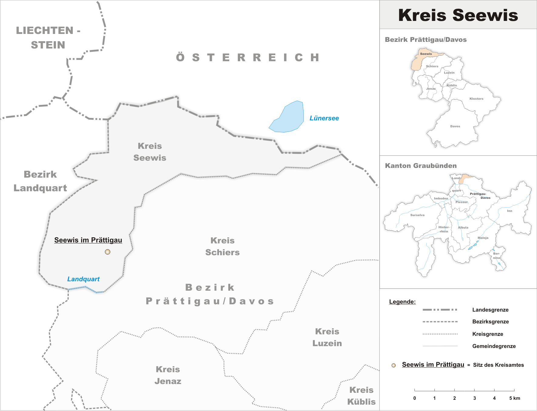 Municipalities in the circle of Seewis